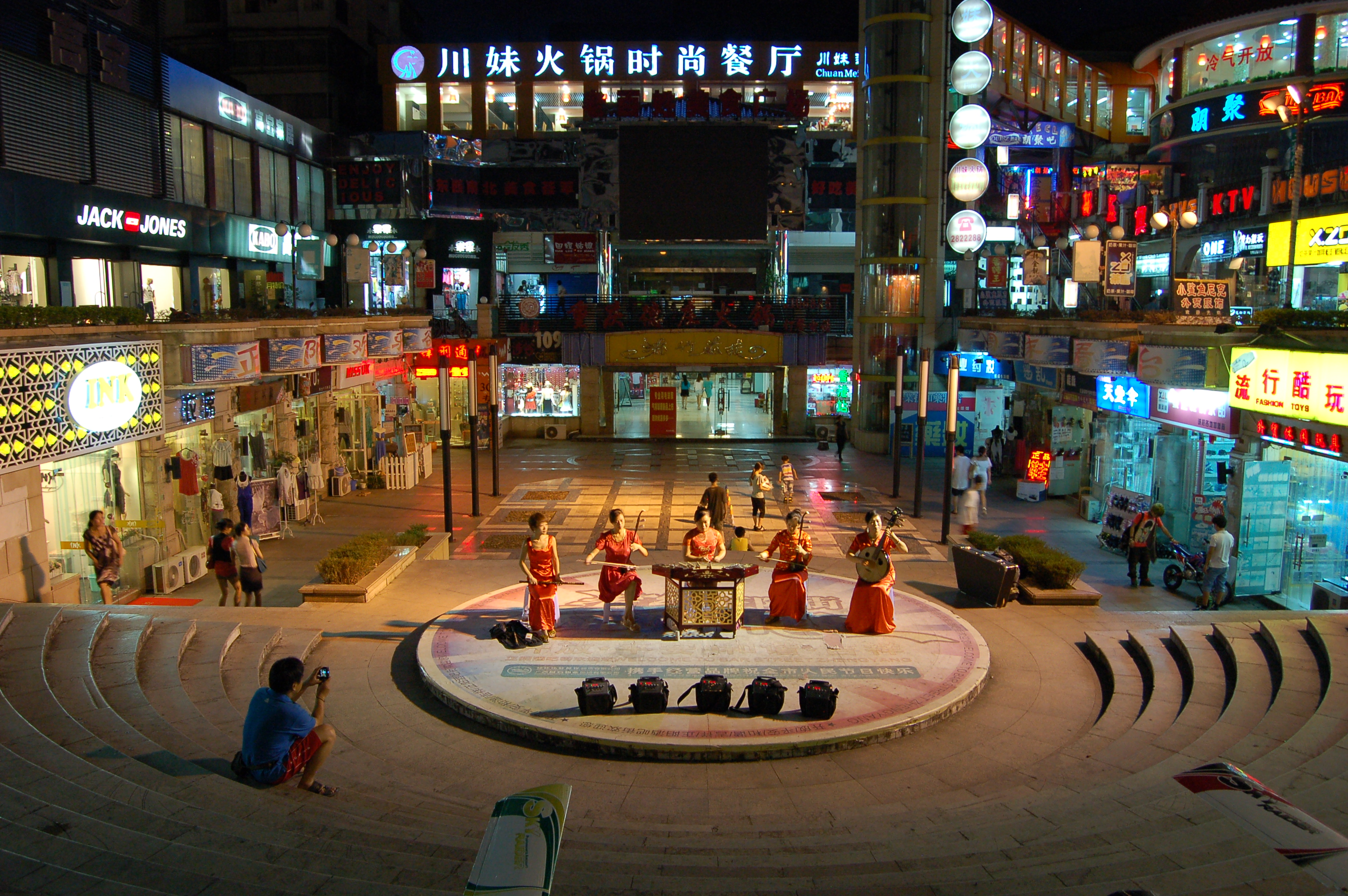 Woman's band in the center of the city Guilin